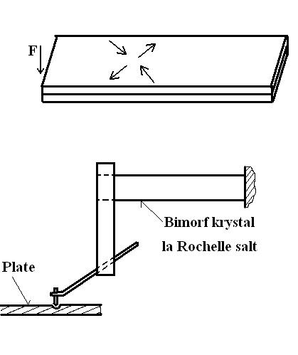 Rochelle salt crystal.